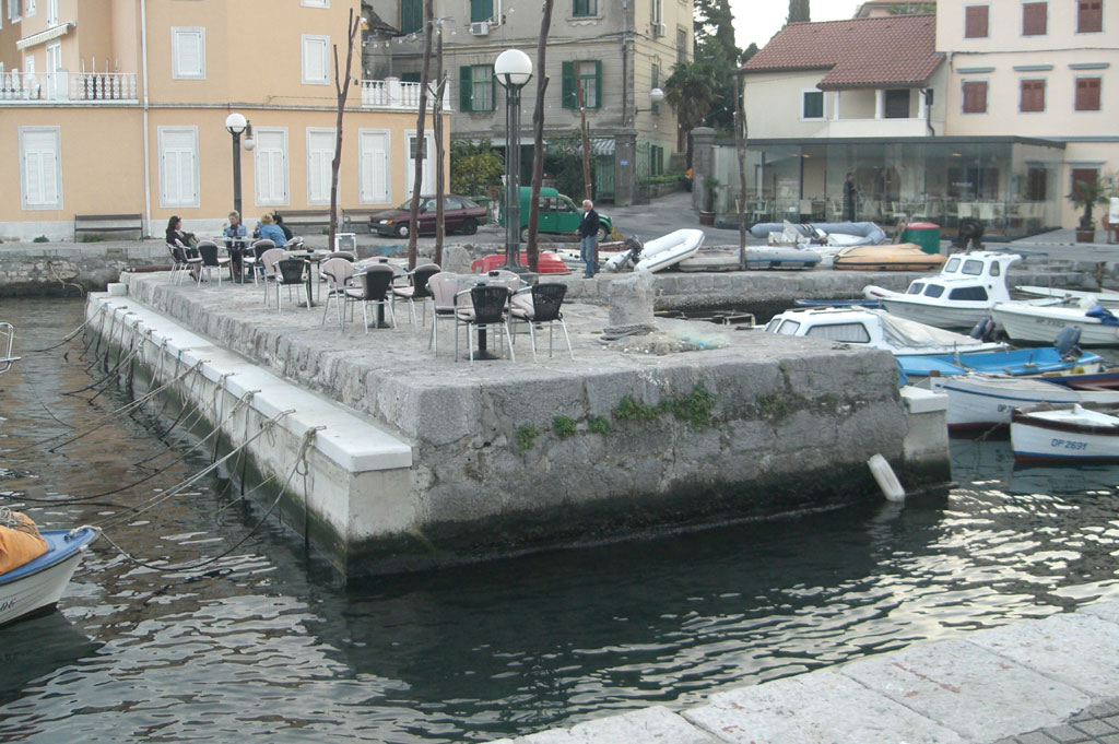 "Mandrač" (small closed port) in Volosko, Croatia. Volosko is a small town on Opatija riviera, hometown of Andrija Mohorovičić.